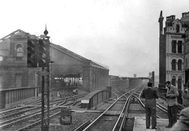 Blackfriars SR Station. View southwards, from platform of former Ludgate Hill Station (closed 3/3/29), towards Blackfriars Station, showing SR Through lines from Holborn Viaduct Station and on right the separate 'Metropolitan Widenend Lines' used for freight traffic, over the Blackfriars Bridges towards Elephant & Castle. (The occasion was of railway enthusiasts' special tour).